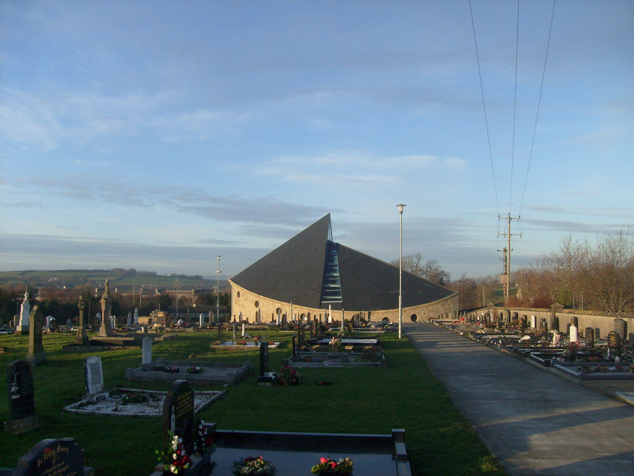 Roman Catholic Church, Newtowncunningham, Co. Donegal, IrelandGaeilge: Séipéal Chaitlicigh, An Baile Nua, Co. Dhún na nGall, Éire